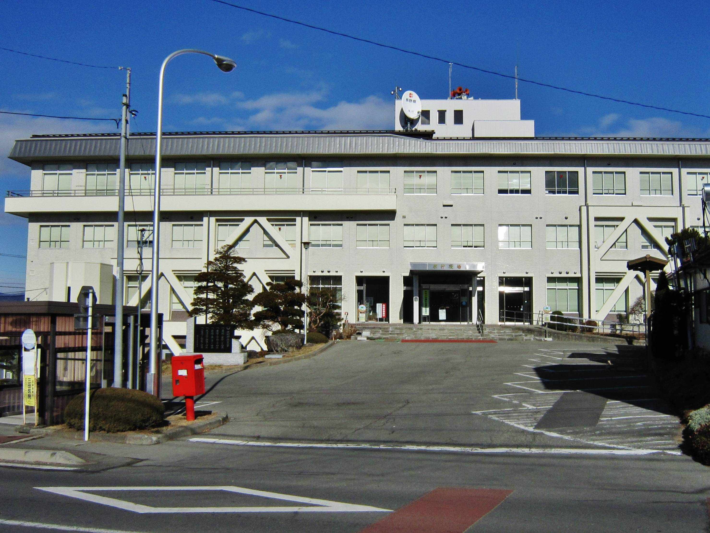 Hara village office.